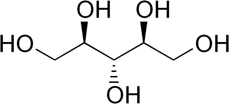 chemical structure of ribitol